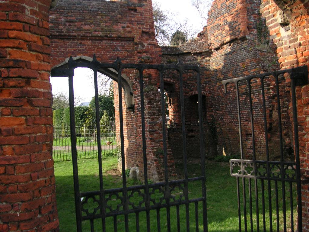 Photograph of Someries Castle taken by Lisa Riegels (2006).